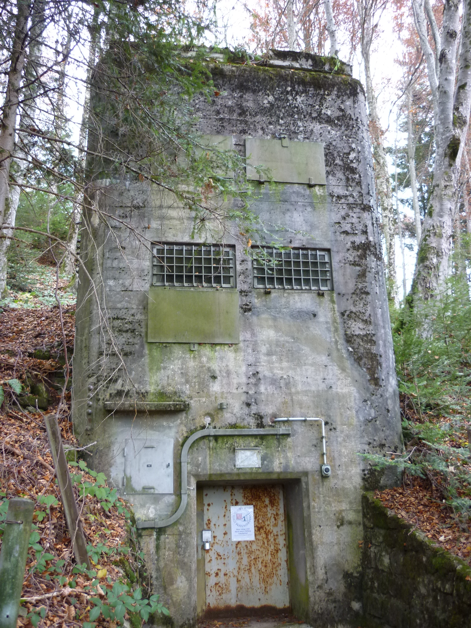 Etzel mountain fortress, Switzerland